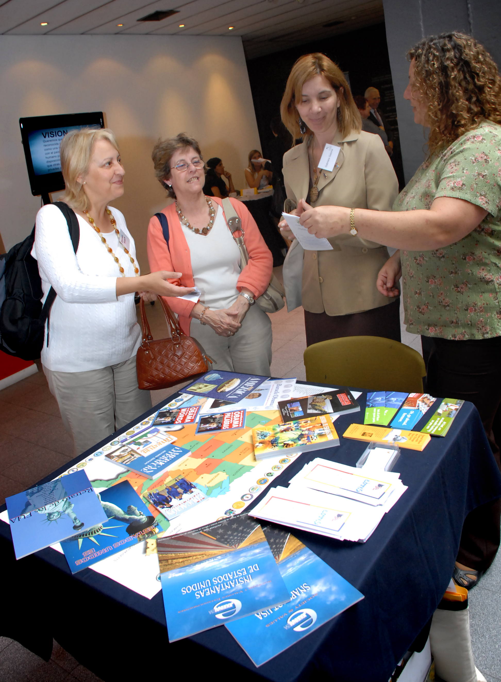 The embassy's Information Resource Center (IRC) distributed brochures and information about education opportunities in the United States during the 1st Alumni Uruguay Conference in Montevideo, November 17-18, 2011. U.S. Embassy photo by Vince Alongi / Copyright info